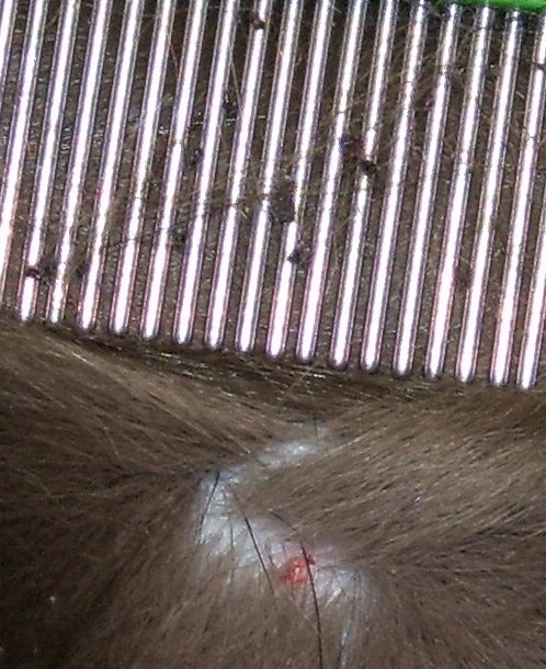 fleabite and flea excrements on a cat